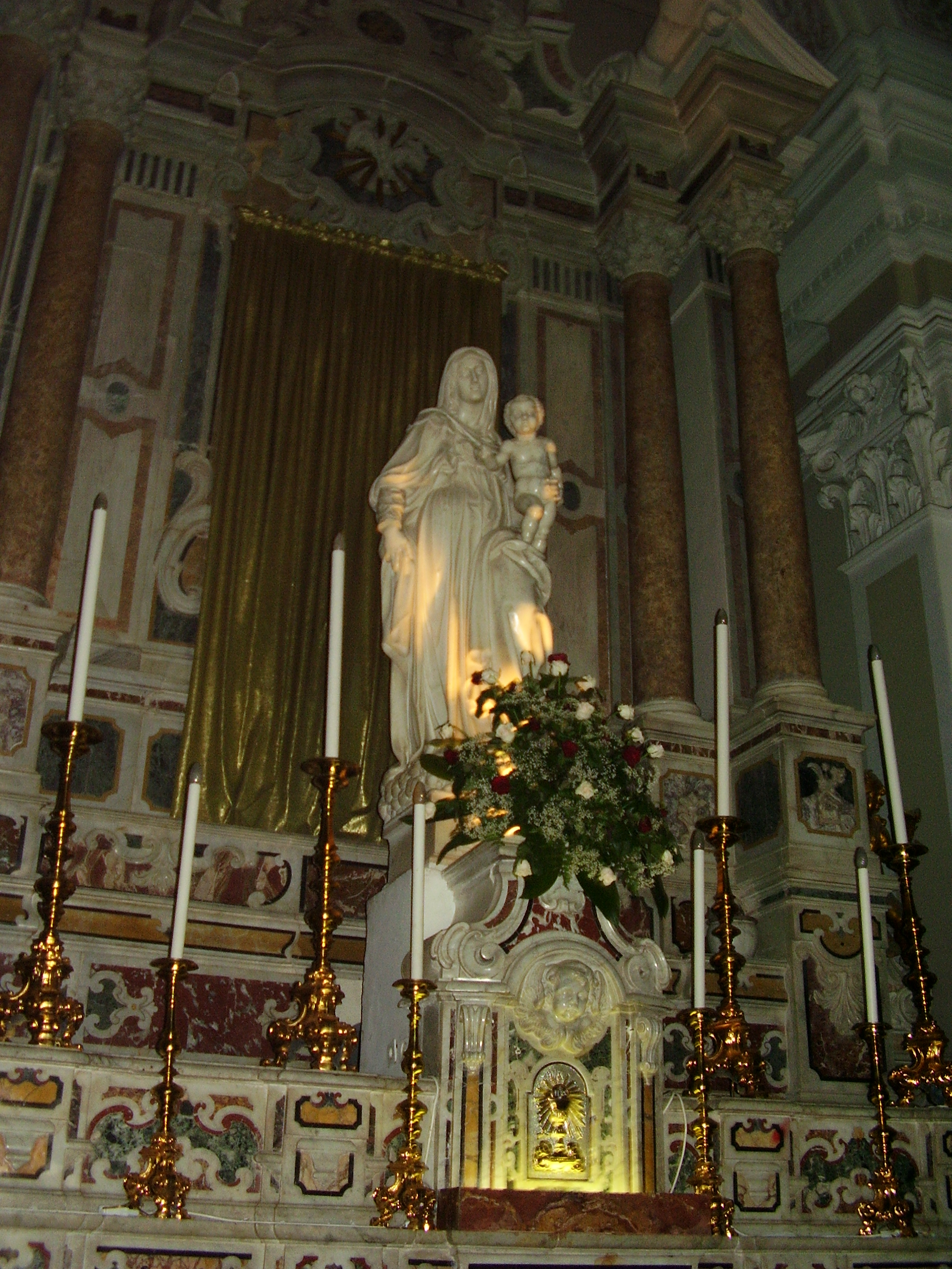 cathedral of vibo valentia